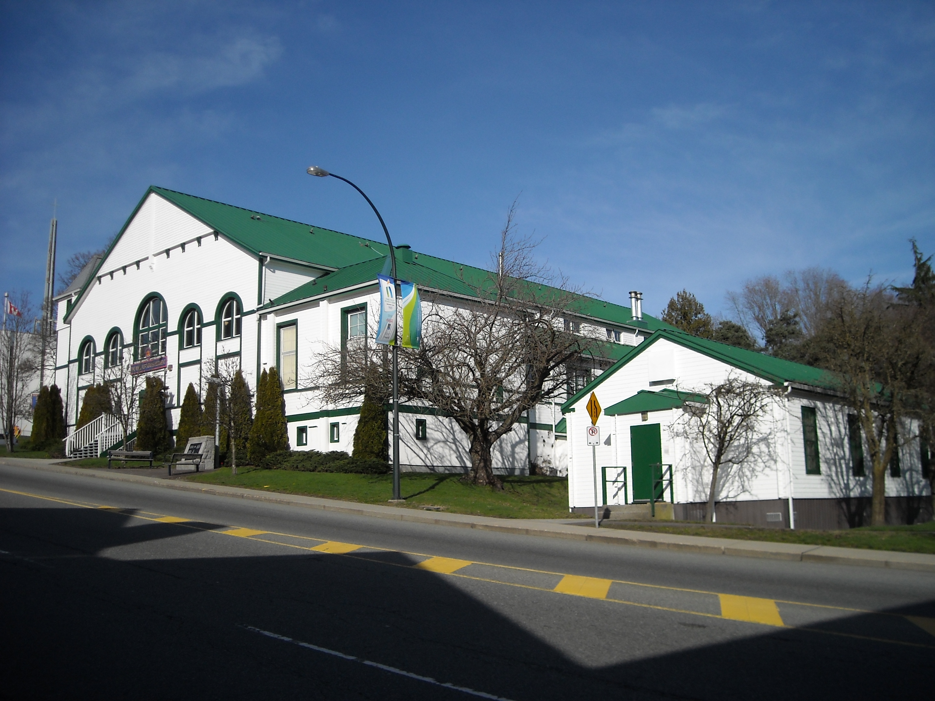 The Armouries